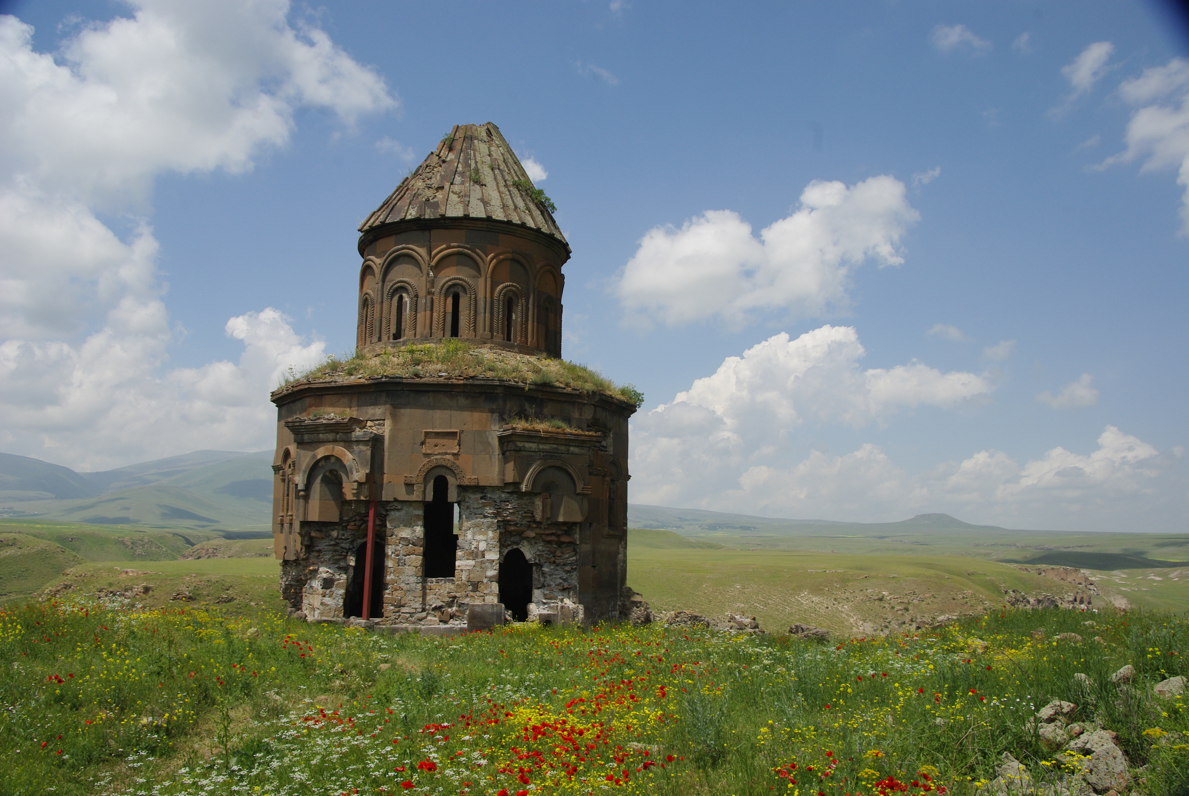 Church of Saint Gregory of Abughamrentz, Ani